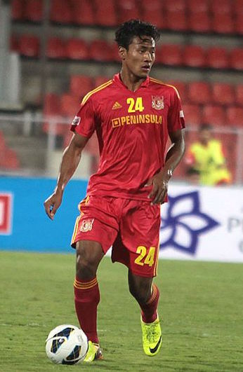 Salam Ranjan Singh of Bengaluru FC while with Pune.